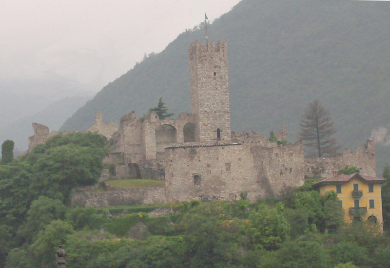 Castle of Breno, Val Camonica